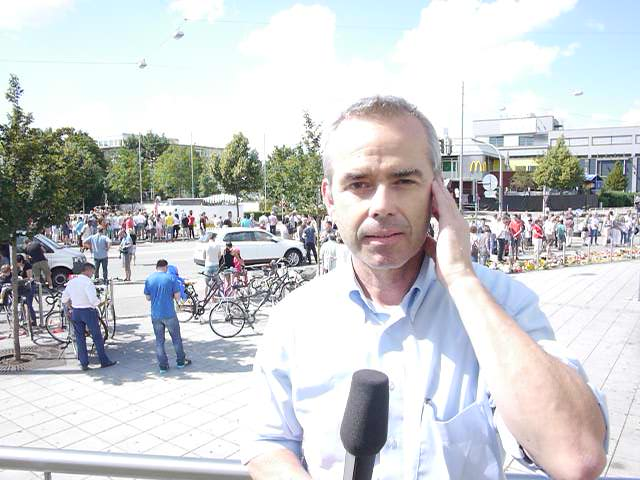 The german TV-Journalist Uwe Brückner after the Munich - Massacre at 24th. of Juli 2016